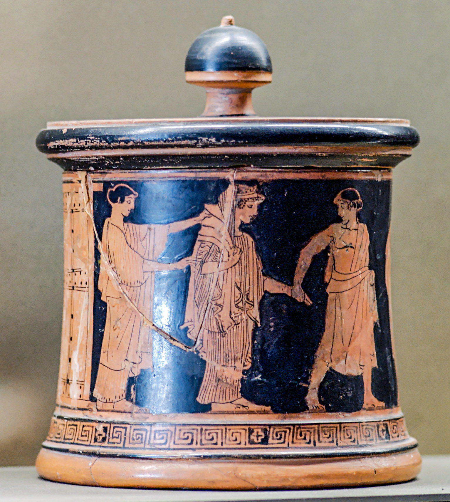 Wedding of Thetis and Peleus. Attic red-figure pyxis, ca. 470–460 BC. From Athens, South side of Mouseion Hill.